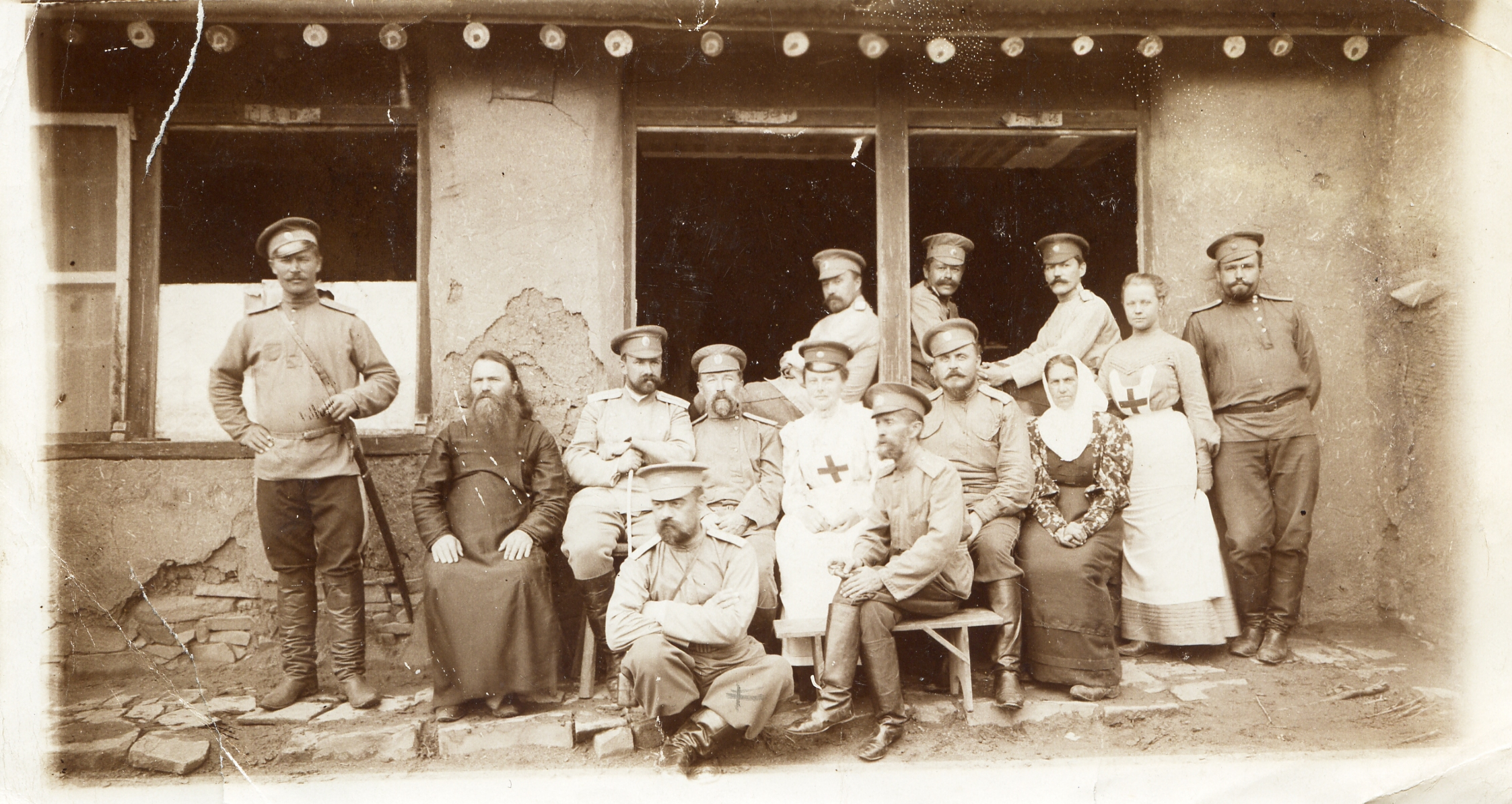 Russian field hospital during World War I